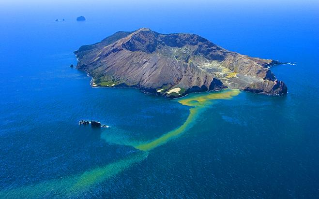 Aerial photograph of White Island (Whakaari) in the Bay of Plenty, North Island, New Zealand